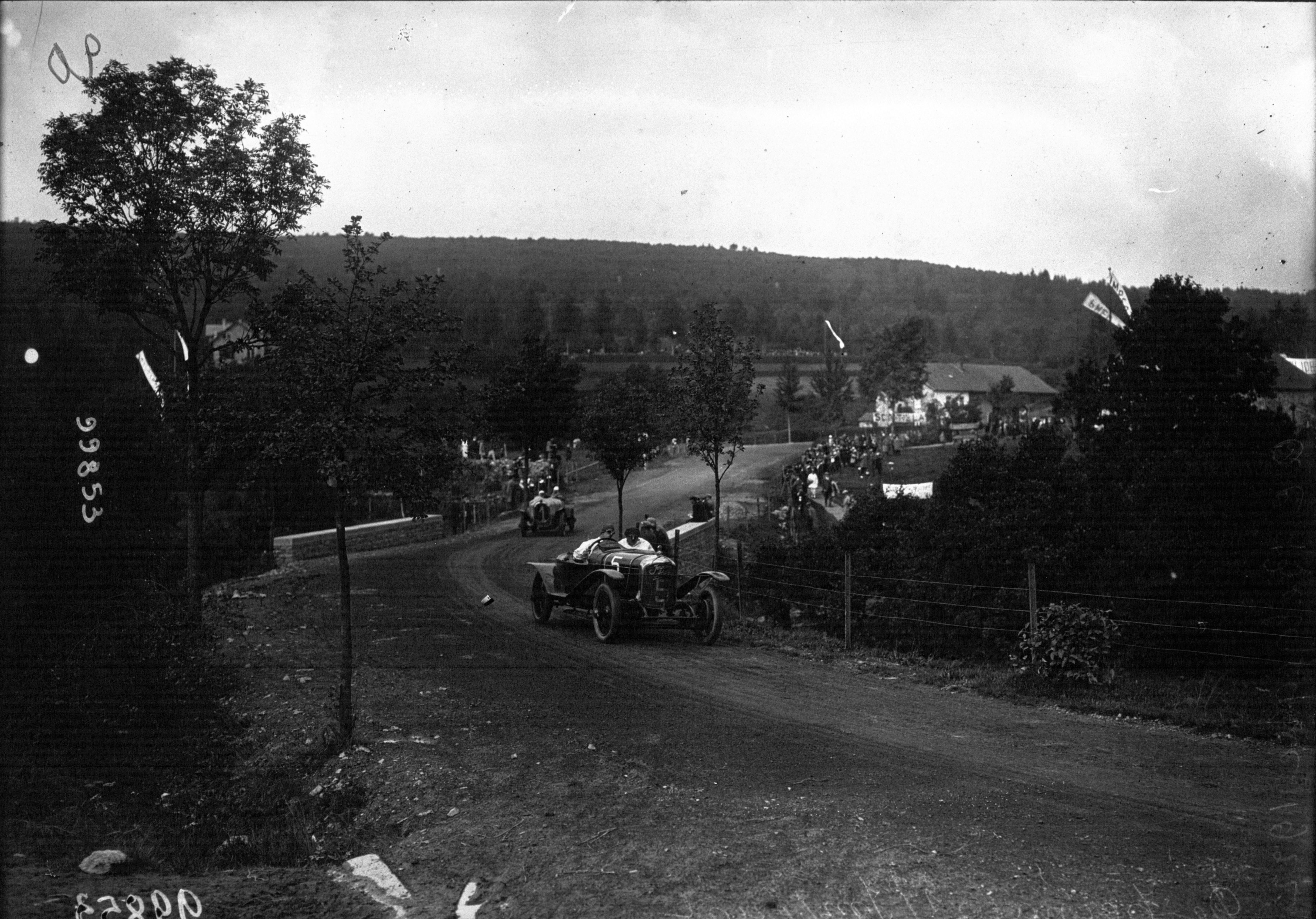 de Tornaco at the 1922 Belgian Grand Prix